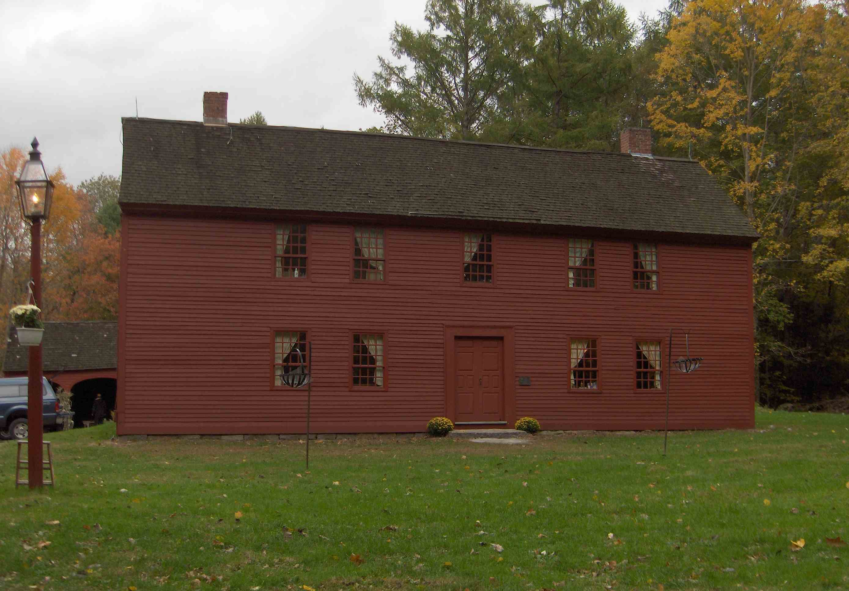 The Strong House (aka the Porter House), the oldest part of which was built c1710 in Coventry CT USA. "Strong" refs to Jedediah Strong, who came to Coventry at the age of 70 and his son Preserved. Preserved was the grandfather of Elizabeth Strong, the mother of Nathan Hale.